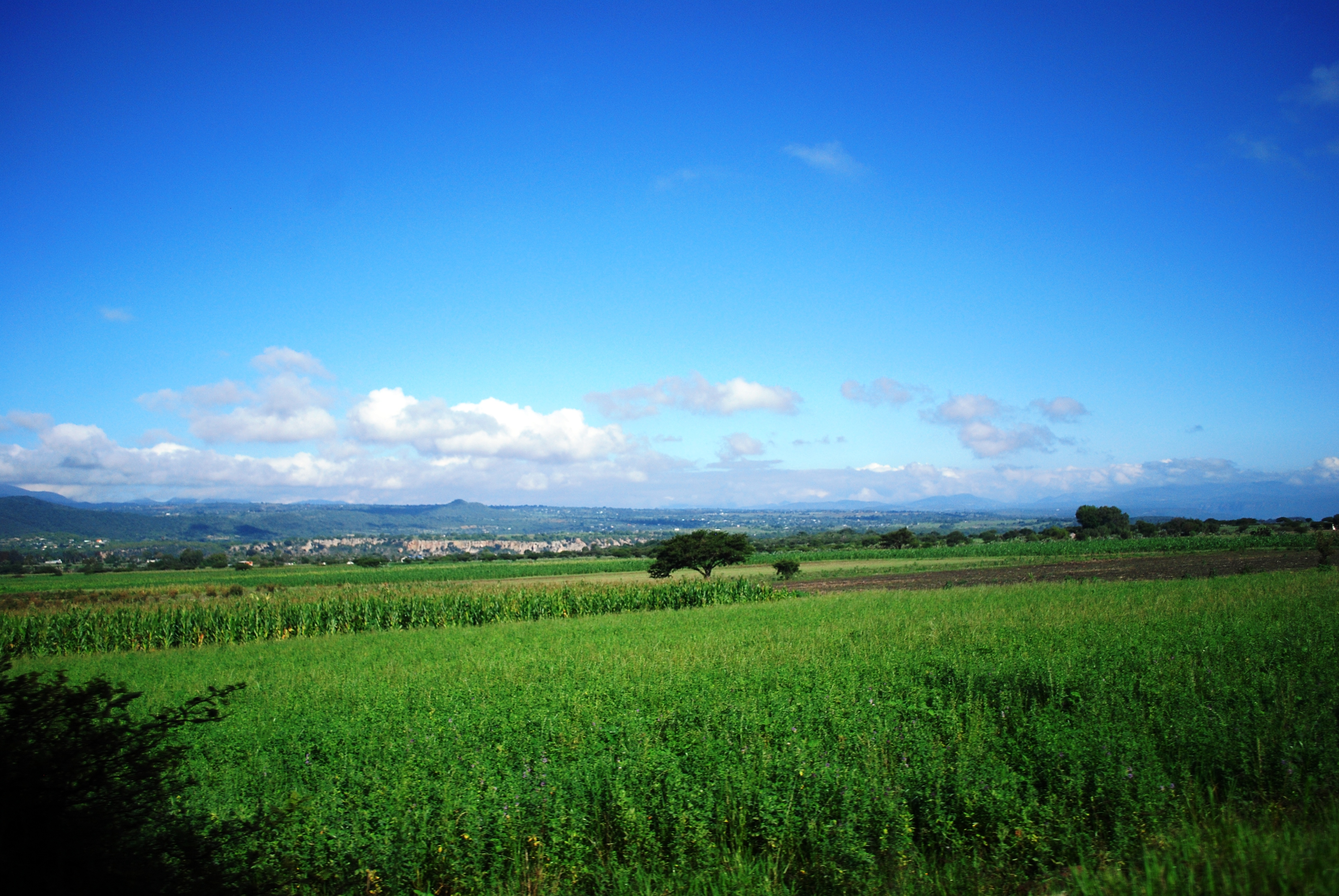 Tulancingo Valley in Huasca de Ocampo, Hidalgo, Mexico